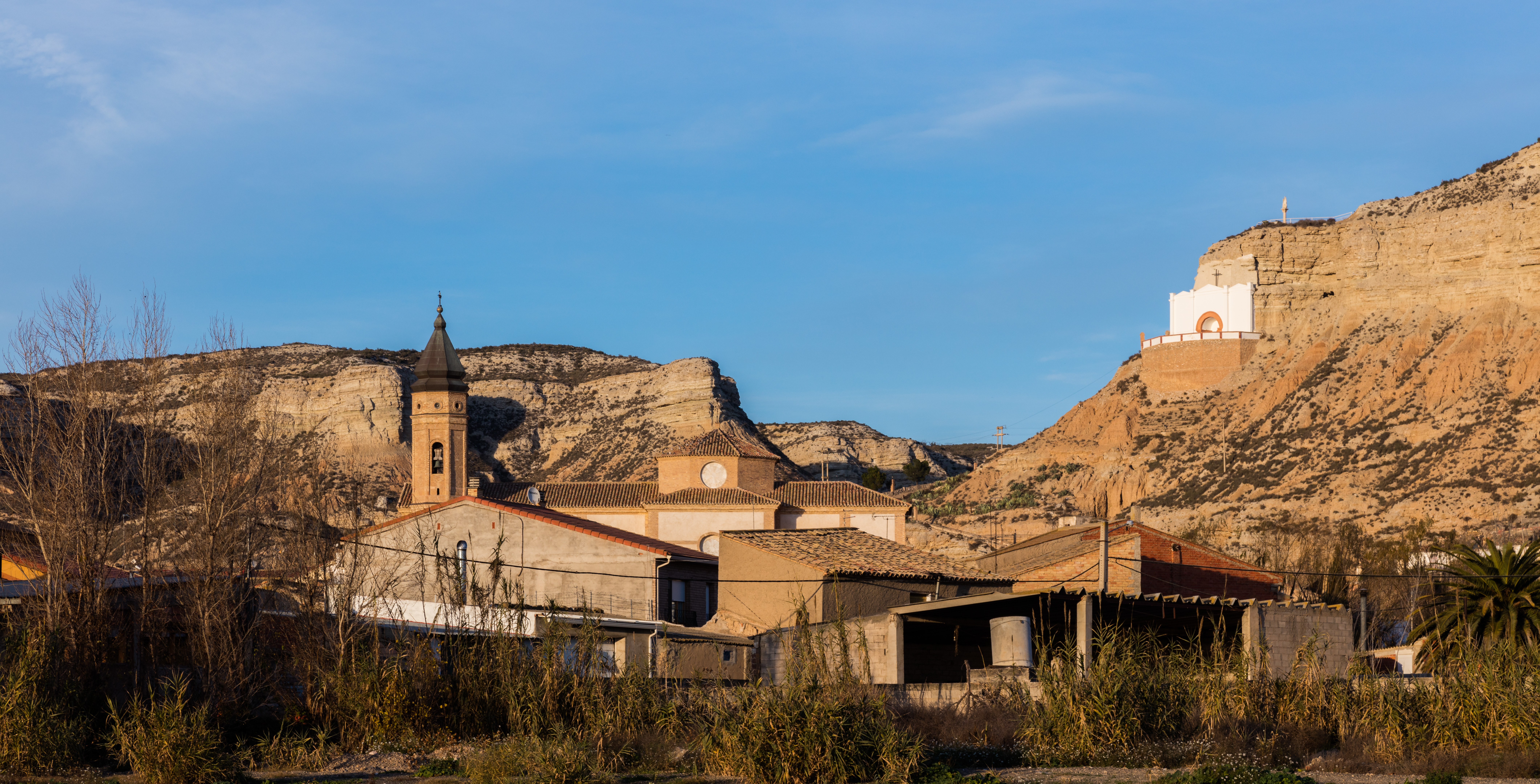 Remolinos, Zaragoza, Spain